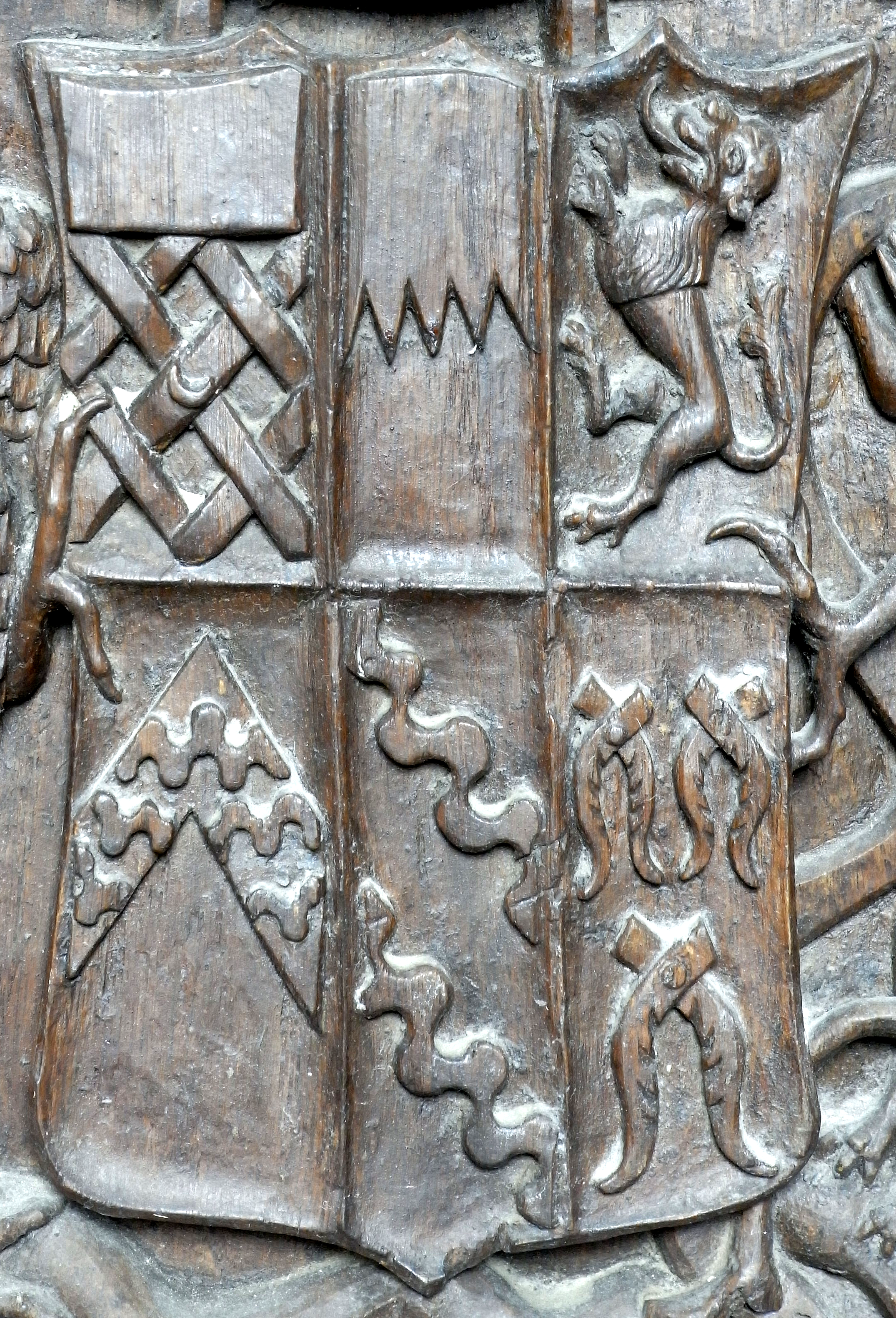 Heraldic bench-end in Monkleigh Church, Devon, showing heraldic achievement of St Leger family of Annery in the parish of Monkleigh: quarterly of 6: 1st:St Leger of Annery: Azure fretty argent, a chief or,[1] a crescent for difference of a 2nd son 2nd: Or, a chief indented azure (Butler ancient (Walter)). The Butler family was connected with Annery. St Leger is known to quarter these arms; alternatively possibly FitzWarin, feudal baron of Bampton: Quarterly per fess indented argent and gules[2] 3rd: A lion rampant crowned (possibly Turberville) 4th: Hankford of Annery, for Richard II Hankford (c.1397-1431) of Annery, feudal baron of Bampton: Sable, a chevron barry undee argent and gules[3] 5th: Stapledon, for Stapledon of Annery: Argent, two bends undee sable[4] (as visible on monument of Walter Stapledon, Bishop of Exeter in Exeter Cathedral 6th: Argent, three barnacles gules tied sable (Donet of Sileham, Rainham, Kent[5]